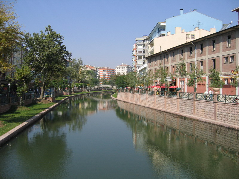 Eskişehir Porsuk River